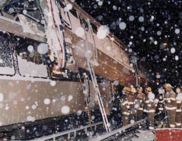 Final position of the Washington Metro trains involved in the January 6, 1996 accident at the Shady Grove station in Montgomery County, Maryland.